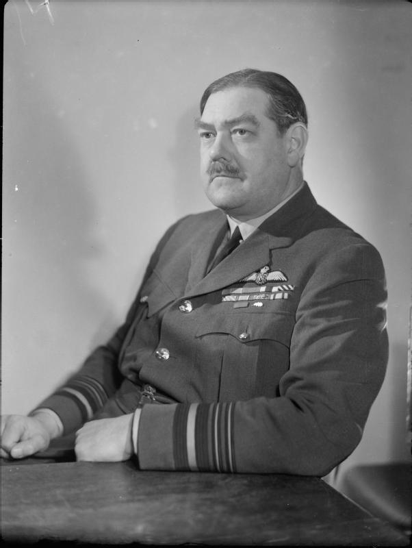 Royal Air Force Bomber Command, 1942-1945. Half-length portrait of Air Marshal Sir Robert Saundby, Deputy Air Officer Commanding-in-Chief, Bomber Command. Photograph taken at Headquarters Bomber Command, High Wycombe, Buckinghamshire.